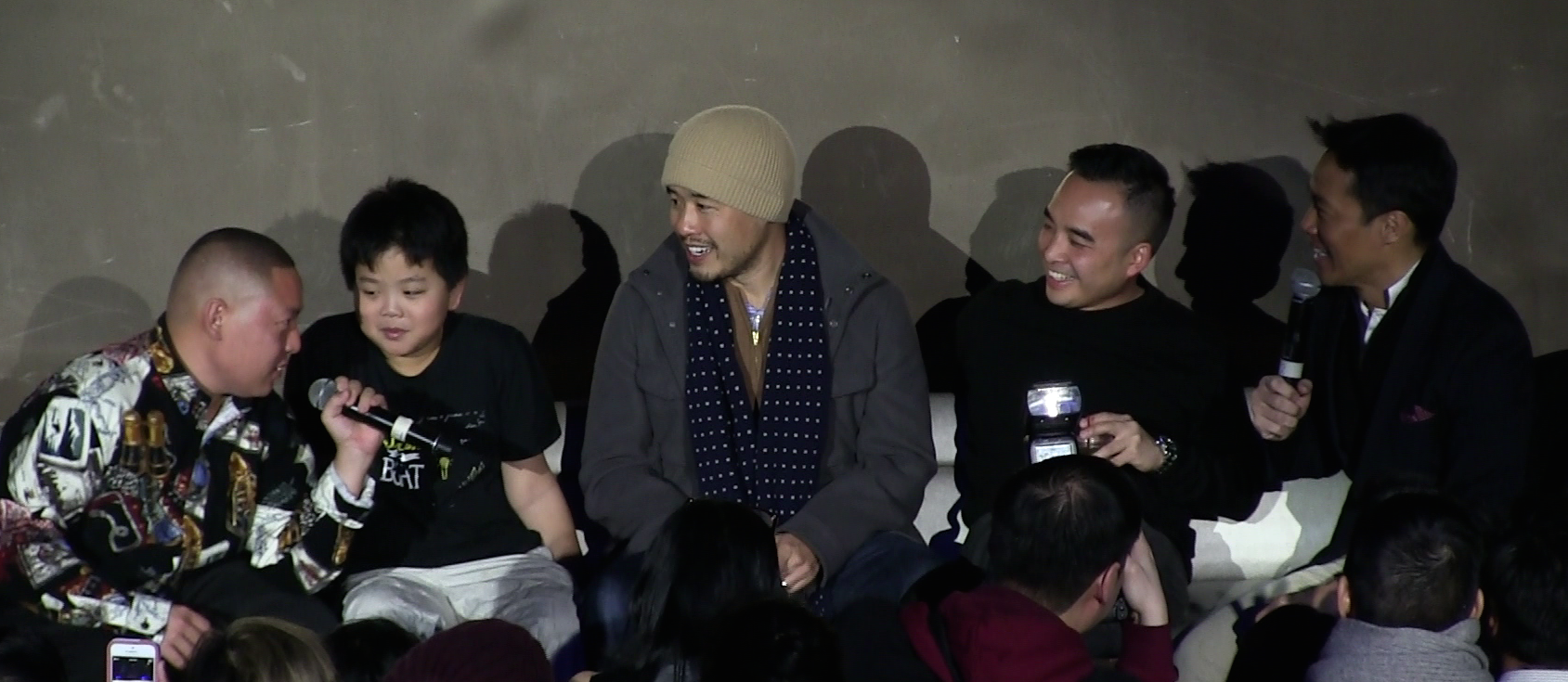 the FOTB cast at a panel discussion for the new show Fresh off the Bat